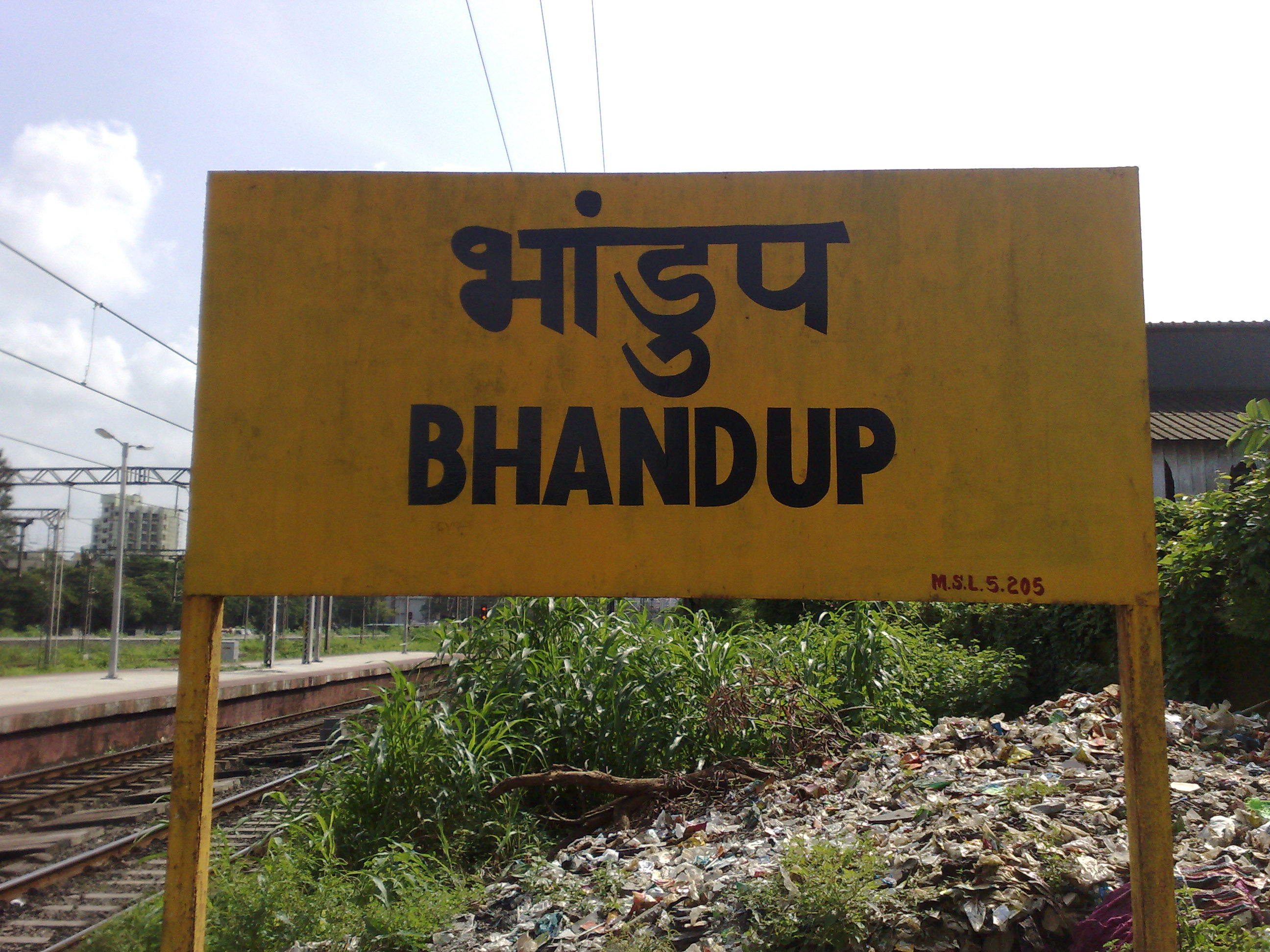 Bhandup stationboard